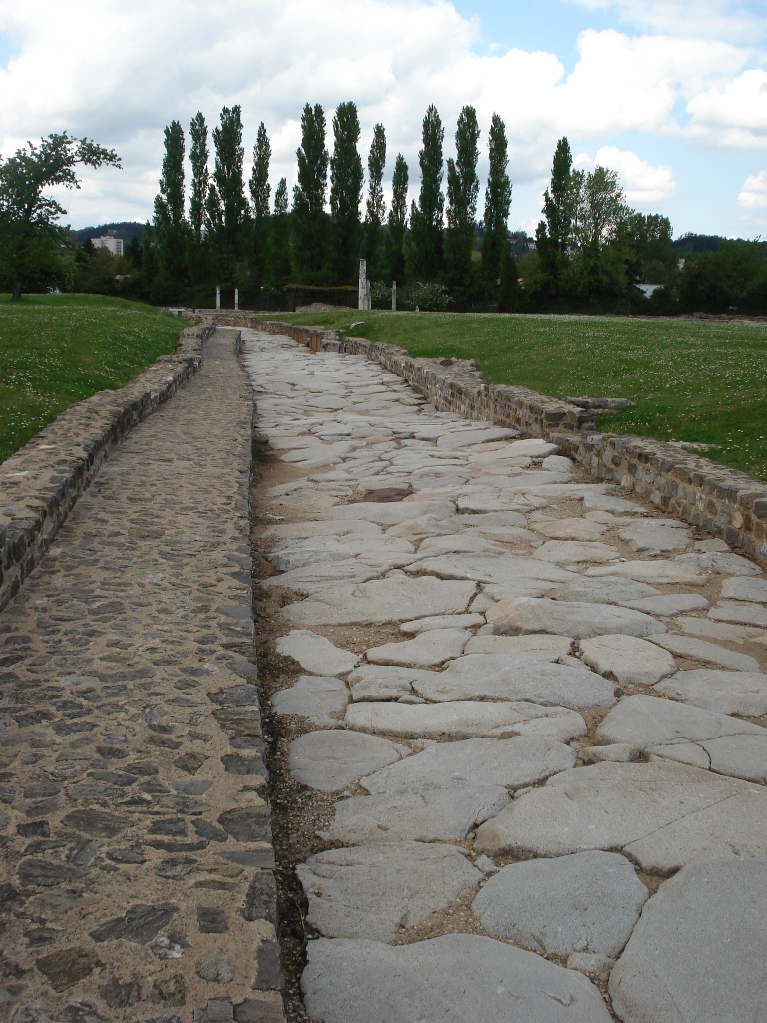 Granite pathway at Saint-Romain-en-Gal, Rhône département, left bank (west side) of the Rhone river. Vienne is on the right bank (east side) of the Rhone river, in the departement of Isère.